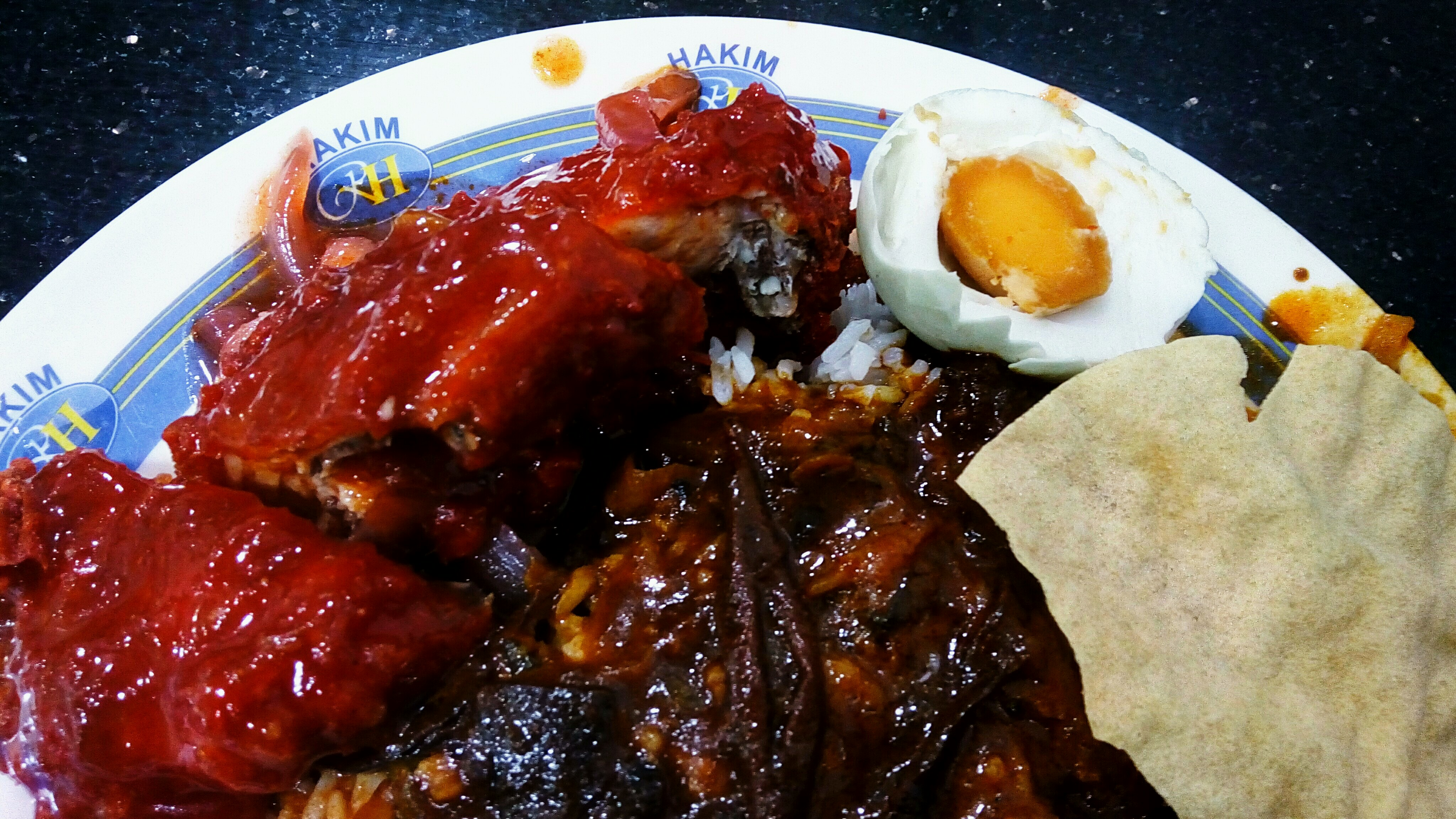 Nasi Kandar, a Malaysian-Indian-Muslim dish.